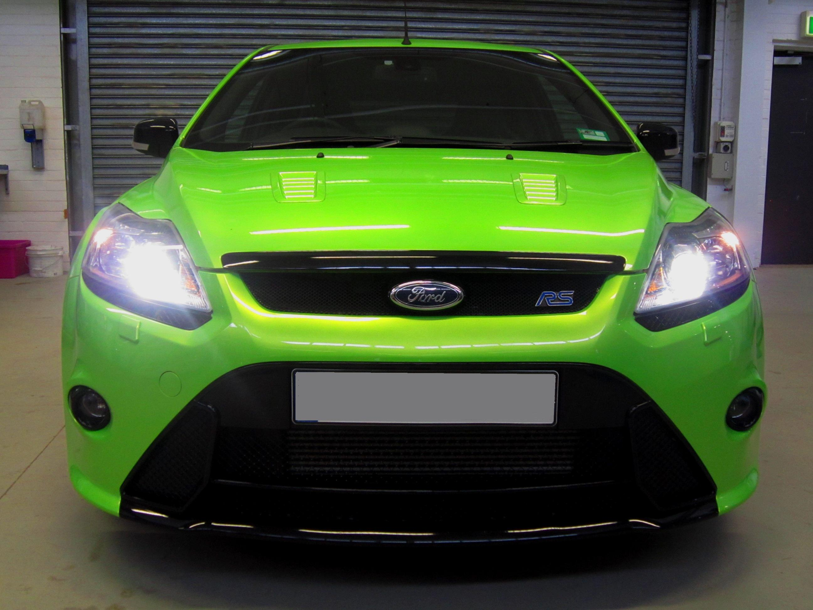 Check out the Three car comparison between the WRX STI, Vw Golf R, and this liitle Hot hatch, the Ford RS Focus; NRMA Drivers Seat.